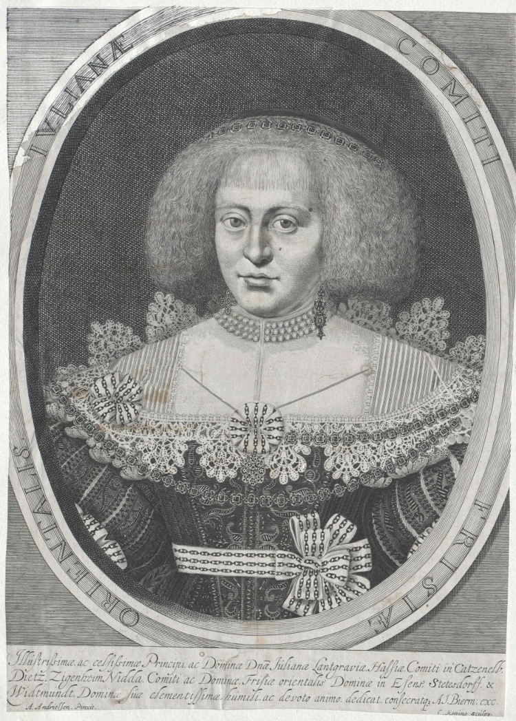 Juliana of Hesse-Darmstadt, later Countess of East Frisia